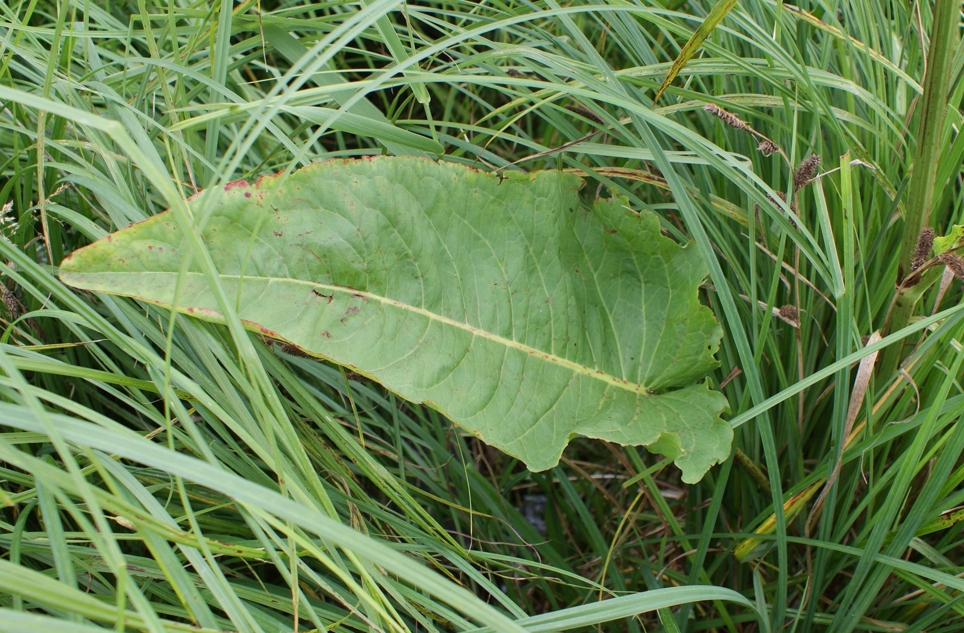 Rumex aquaticus, leaf